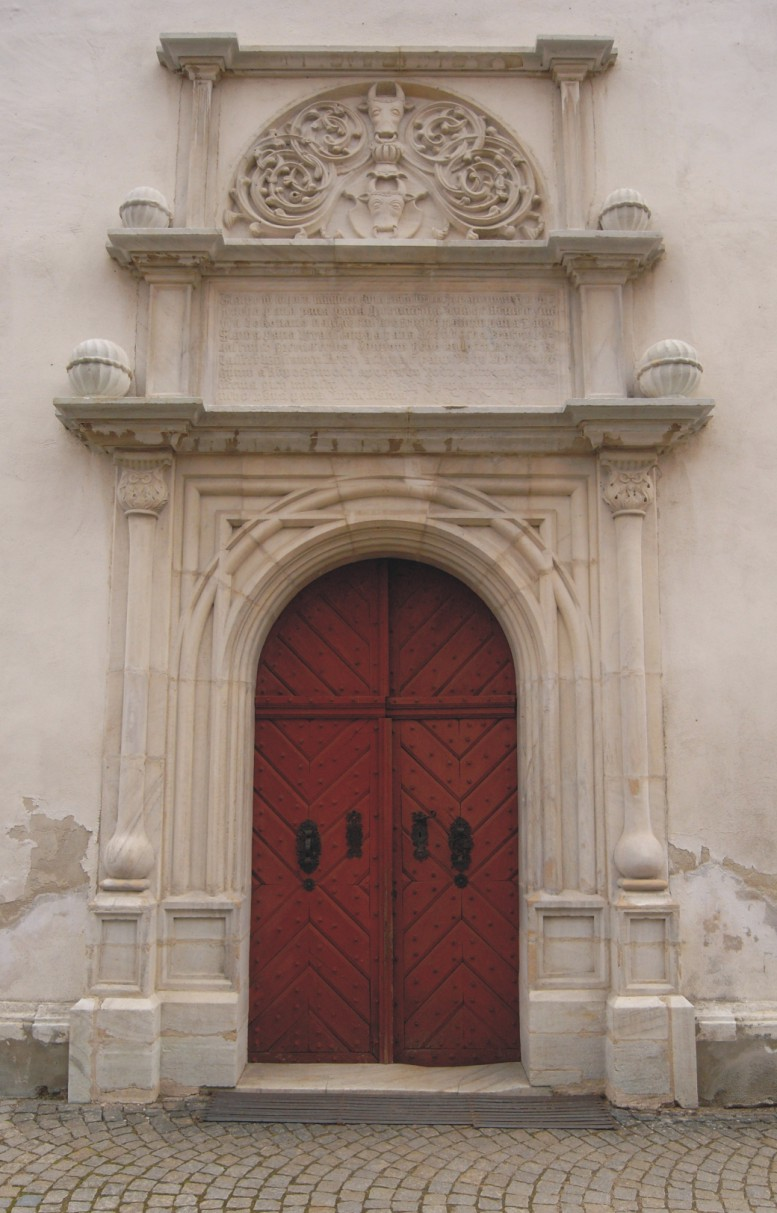 Doubravník, portal of church of holy cross (1535-1557) (Czech Republic)